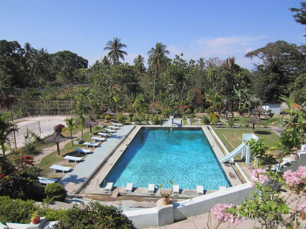 Baucau public Swimmingpool, East Timor